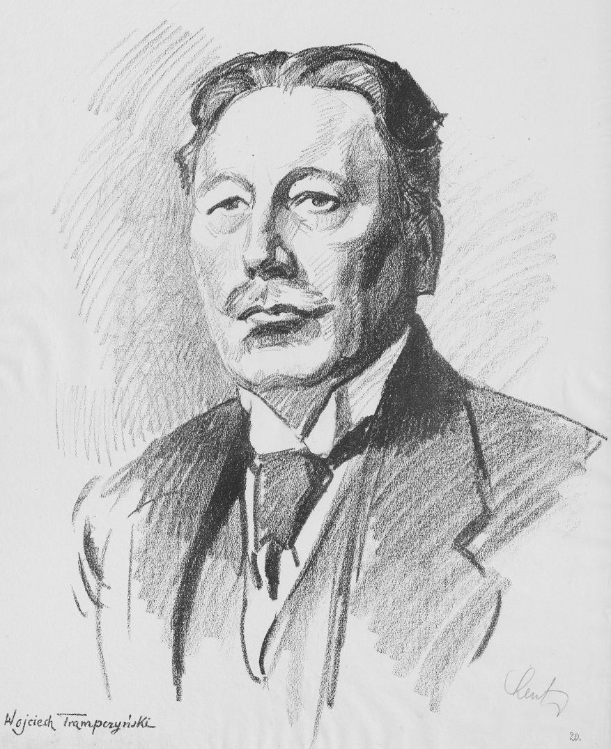 Wojciech Trąmpczyński's portrait by S. Lentz.